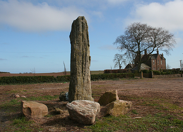 Stone of Morphie